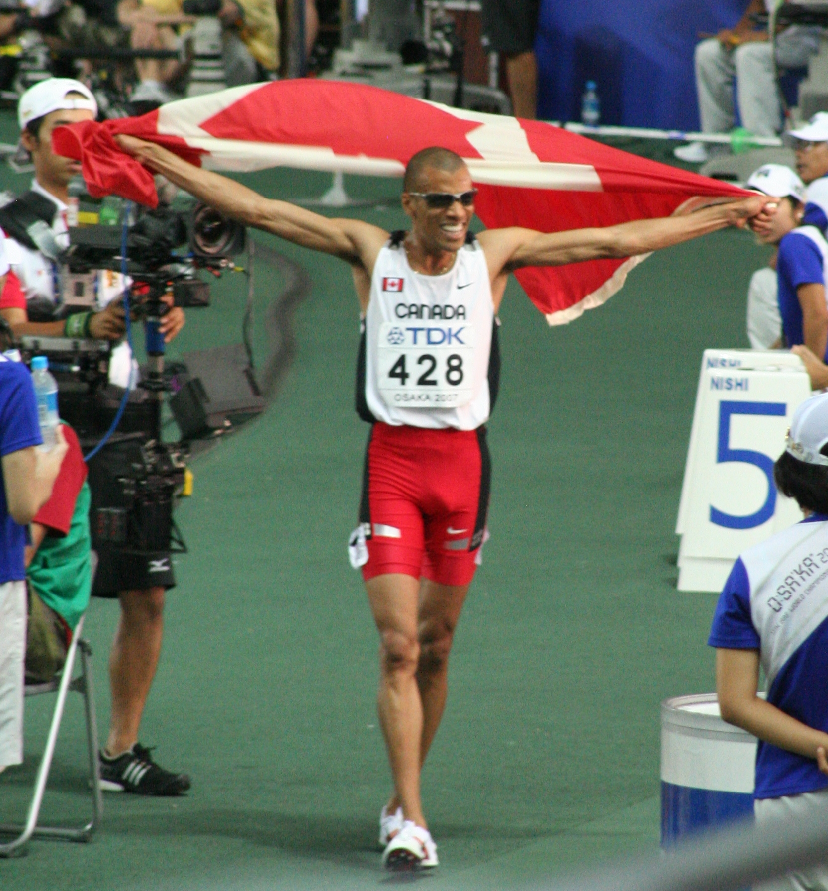 World Athletics Championships 2007 in Osaka - Gary Reed after finishing second in the men's 5000 metres final